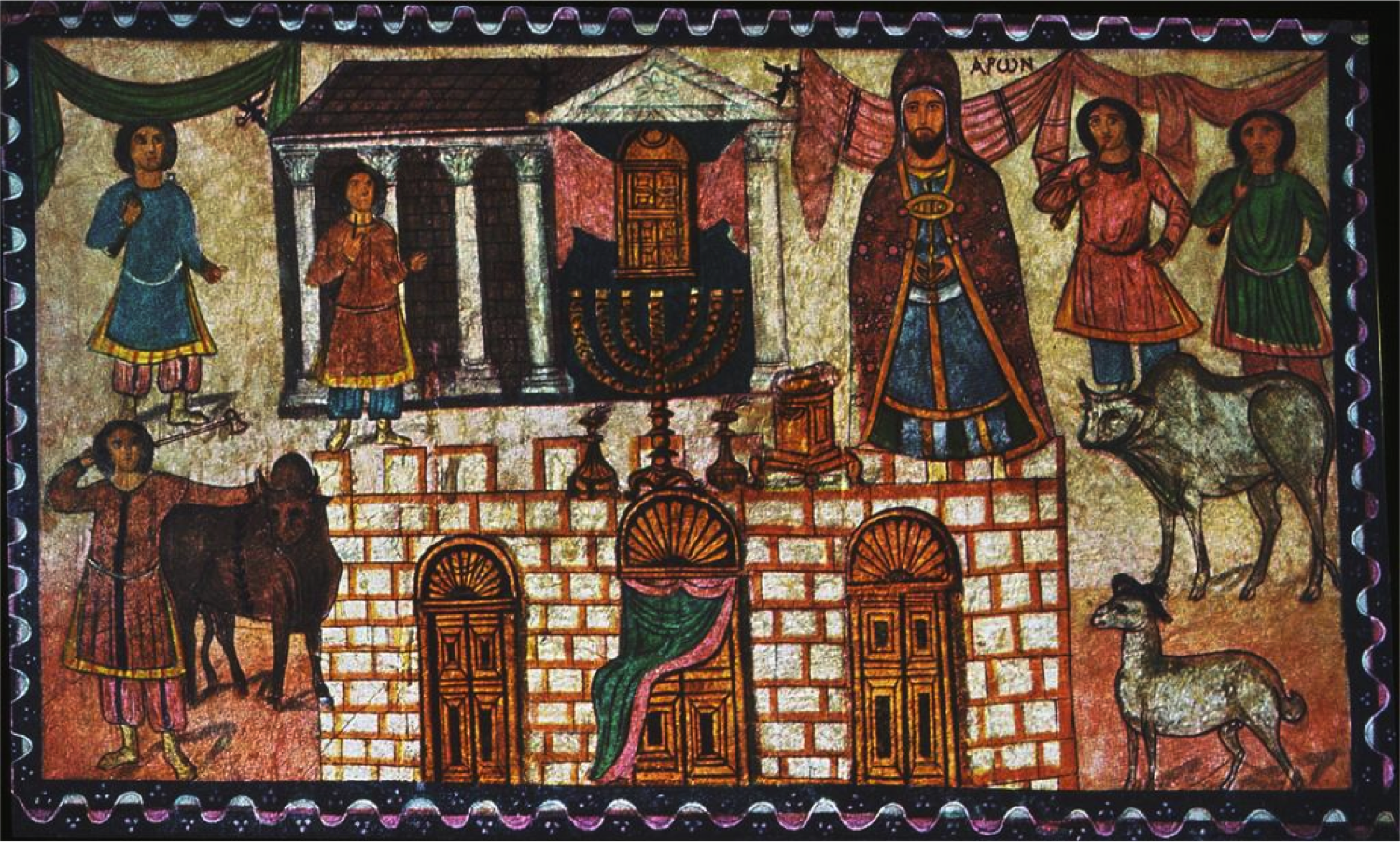 Dura Europos synagogue wall painting of the Consecration of the Tabernacle including Aaron and male attendants.